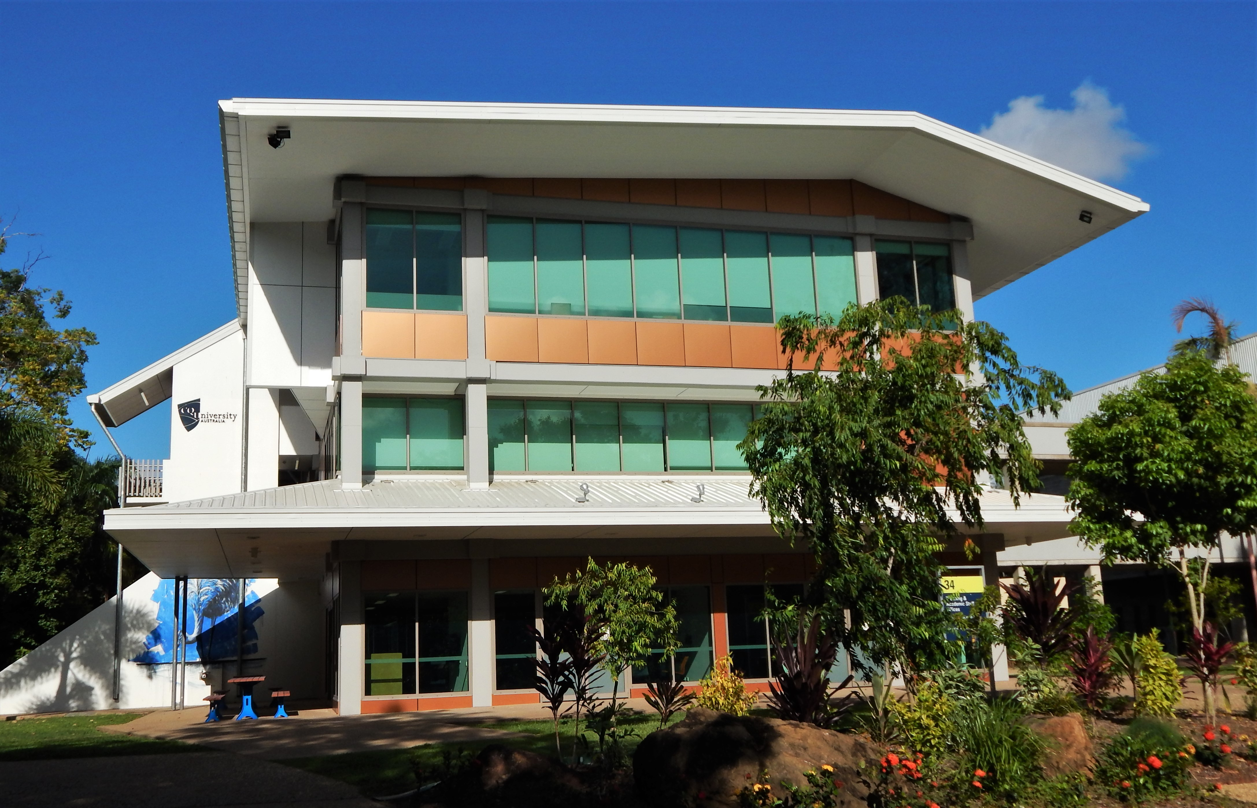 Building 34 at CQUniversity's North Rockhampton campus, which had a $7.6million refurbishment in 2015